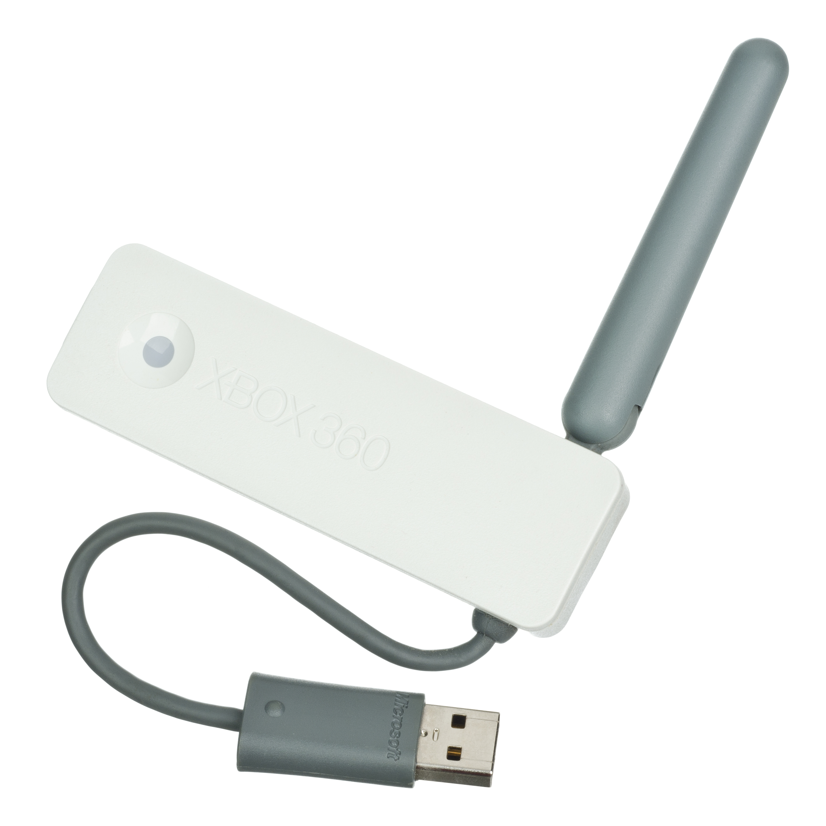 The wifi adapter for the Xbox 360.